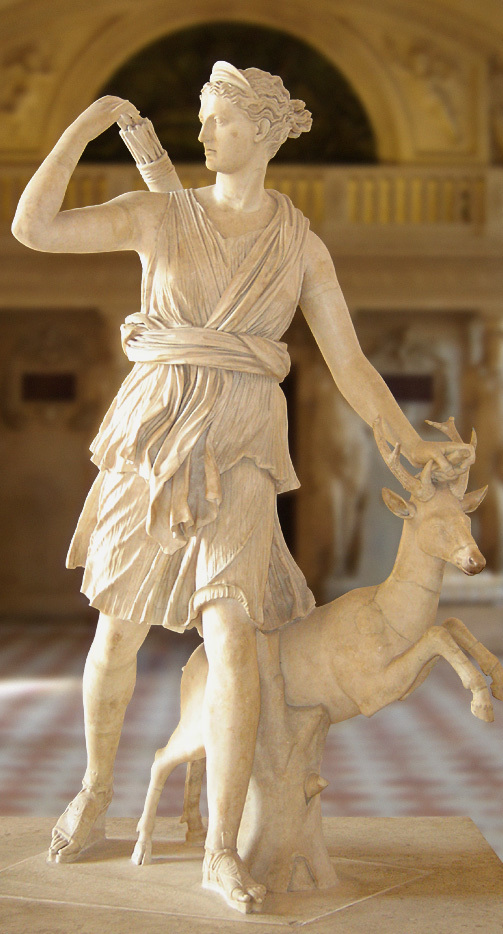 Artemis with a hind, better known as "Diana of Versailles". Marble, Roman artwork, Imperial Era (1st-2nd centuries CE). Found in Italy.